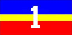 This is a diagram of the 1 Service Battalion unit flag.